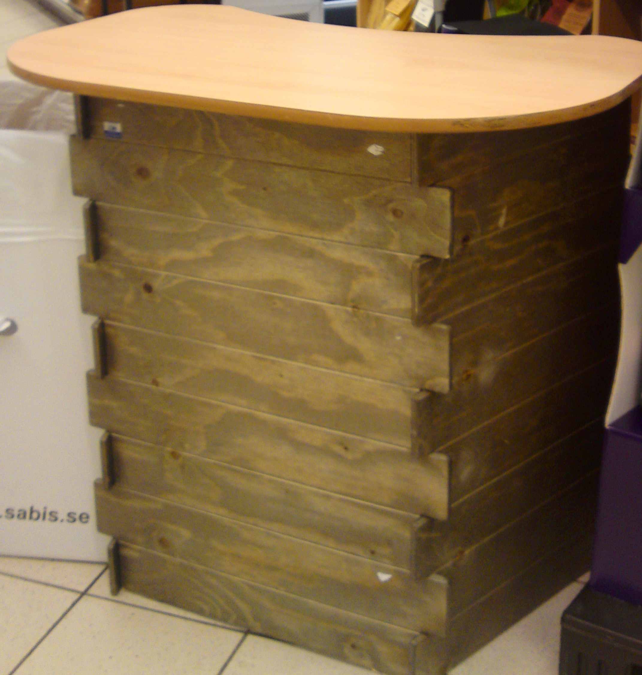 demo table